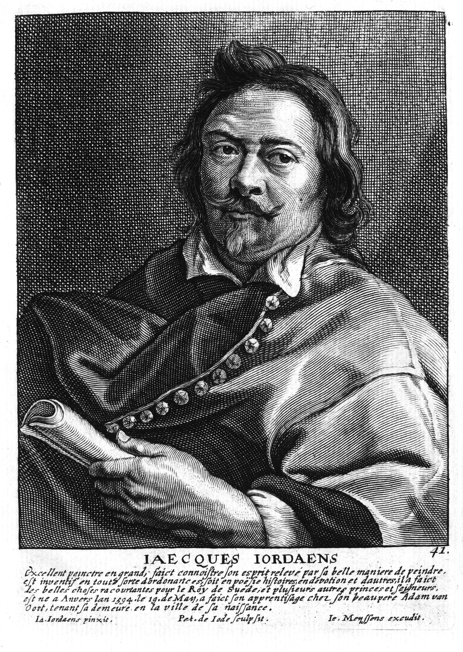 Jacob (Jacques) Jordaens (19 May 1593 – 18 October 1678)